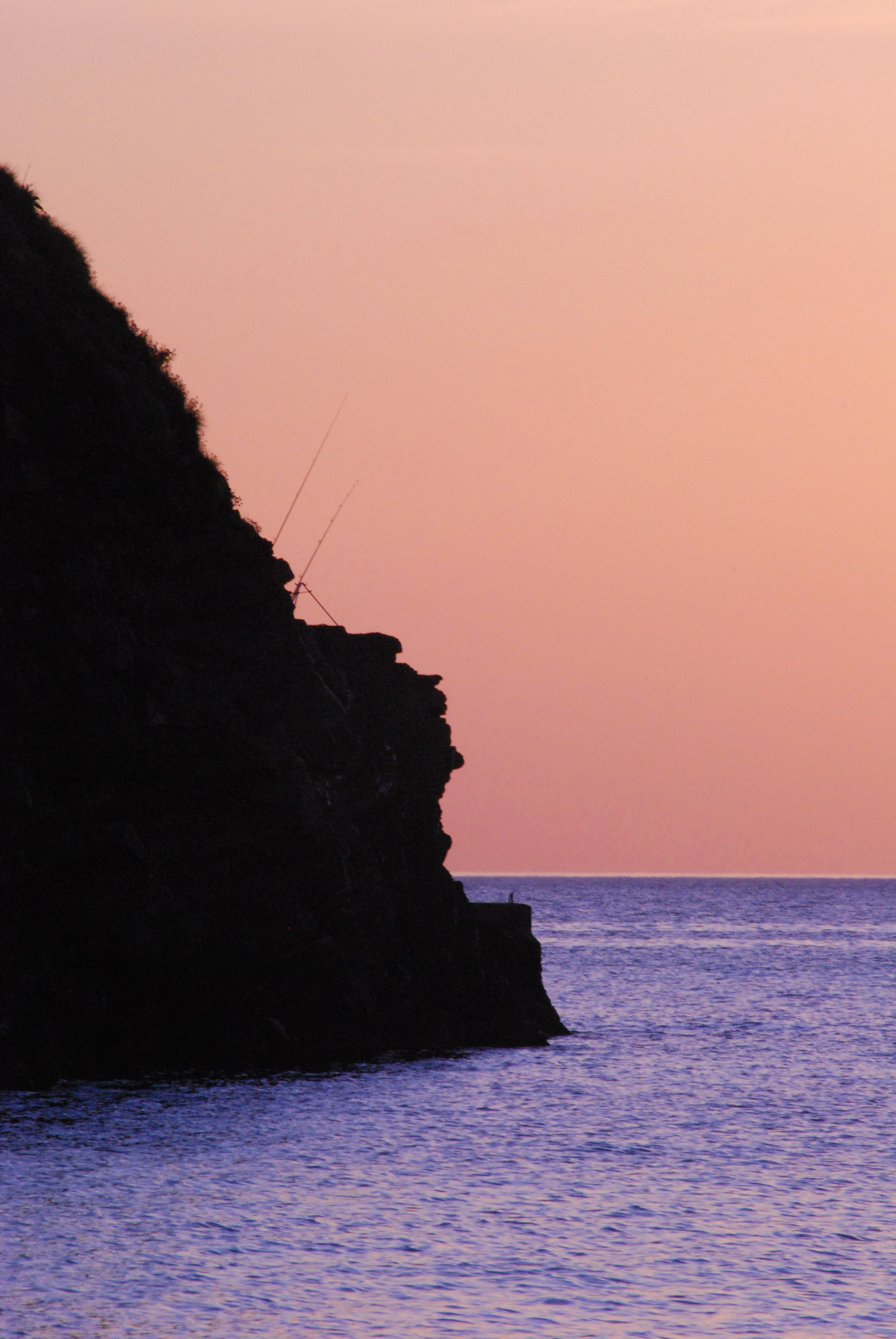 Sunset from Little Haven Pembrokeshire